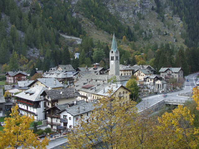 Overview of Gressoney-Saint-Jean (Aosta Valley, Italy)